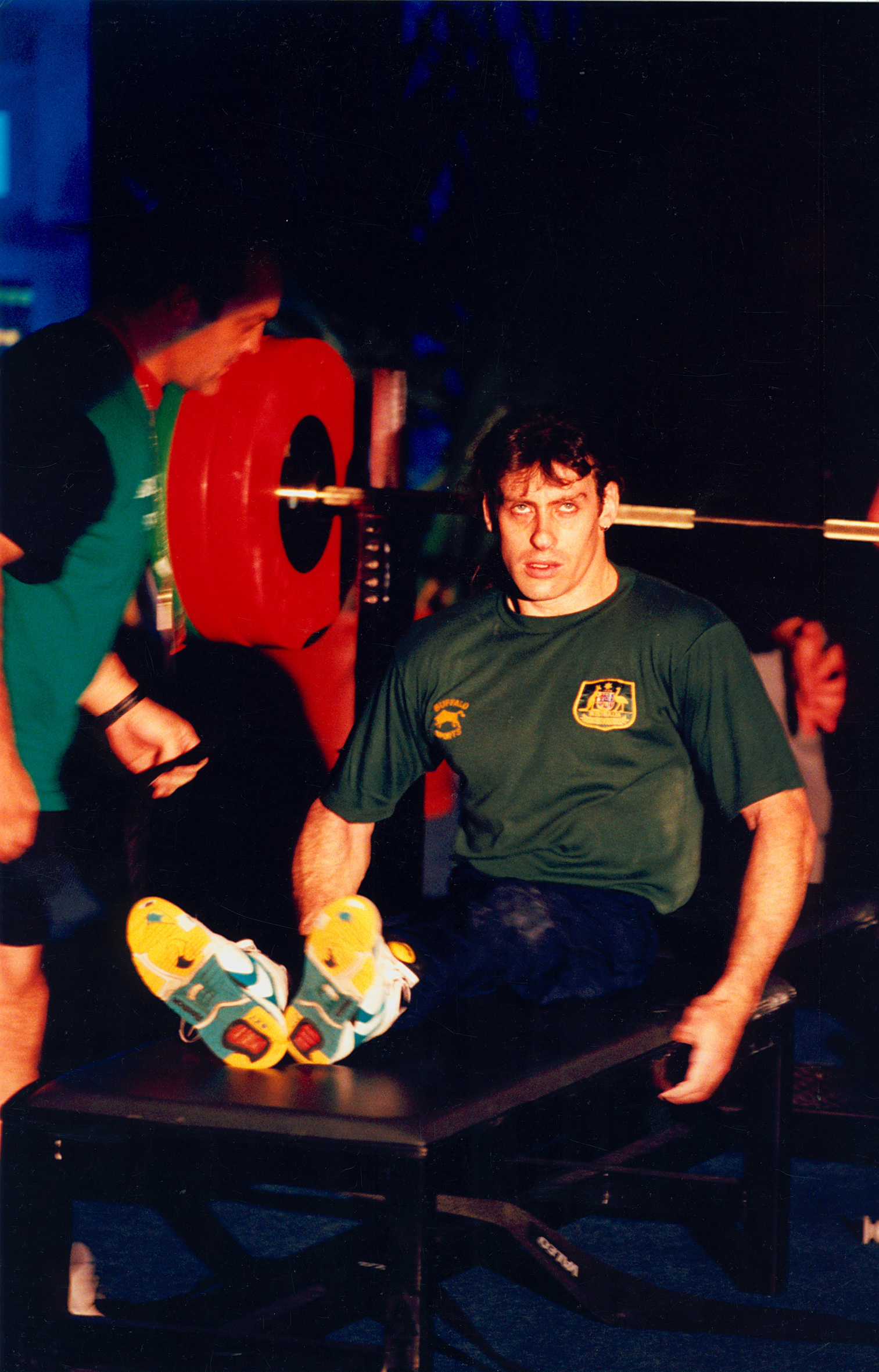 Australian powerlifter Richard Nicholson on the bench during the 1996 Atlanta Paralympic Games